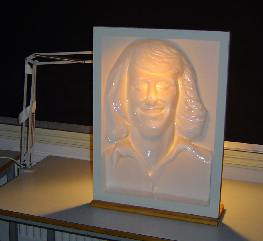 A mask of Swedish tennis player Björn Borg used in experiments of the Hollow-Face illusion at Uppsala University, Sweden. On this picture, the mask looks convex, but this is an illusion - see Image:Bjorn_Borg_Hollow_Face-concave.jpg.